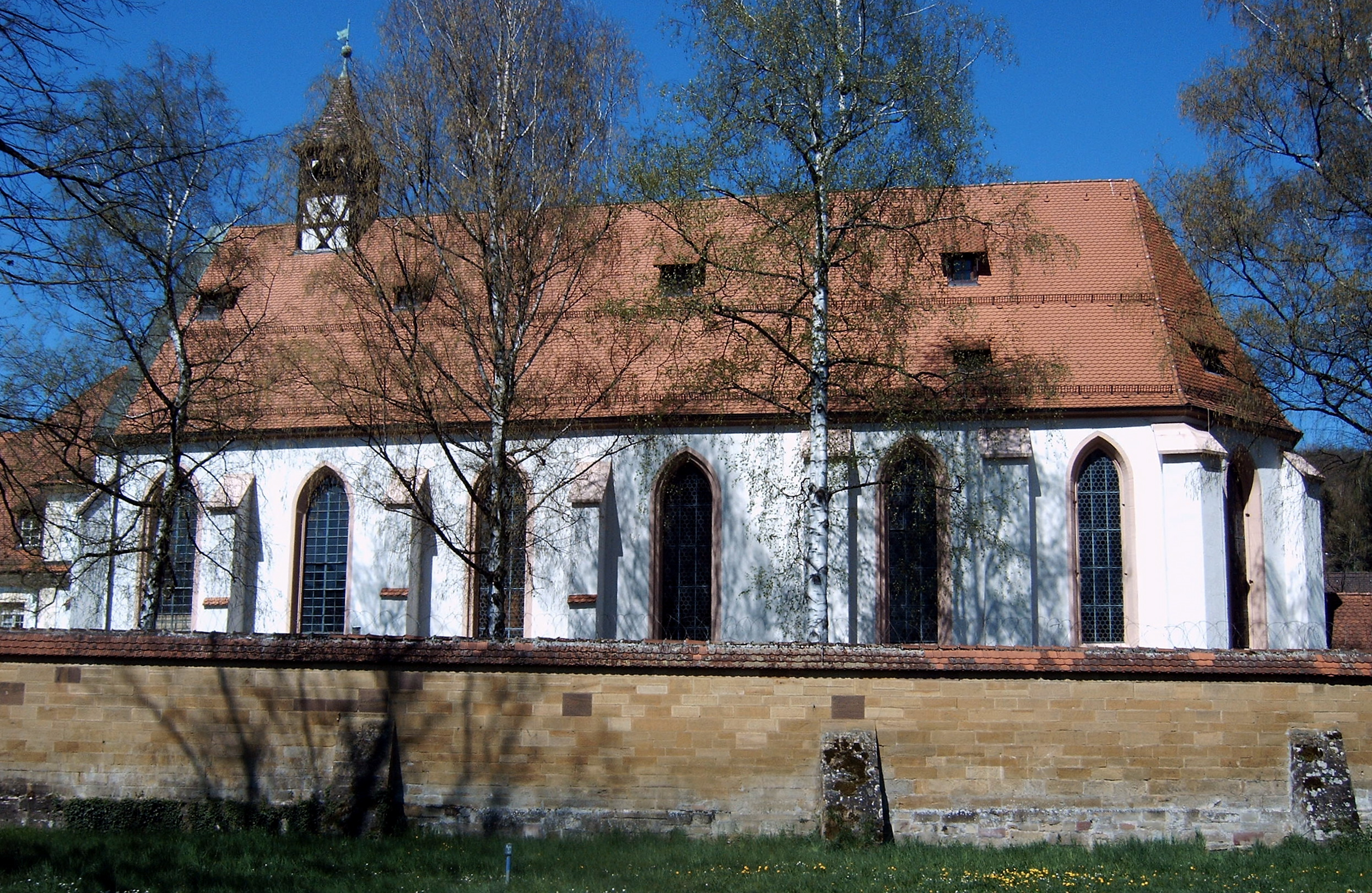 Church of Gotteszell monastery, Schwäbisch Gmünd, Germany